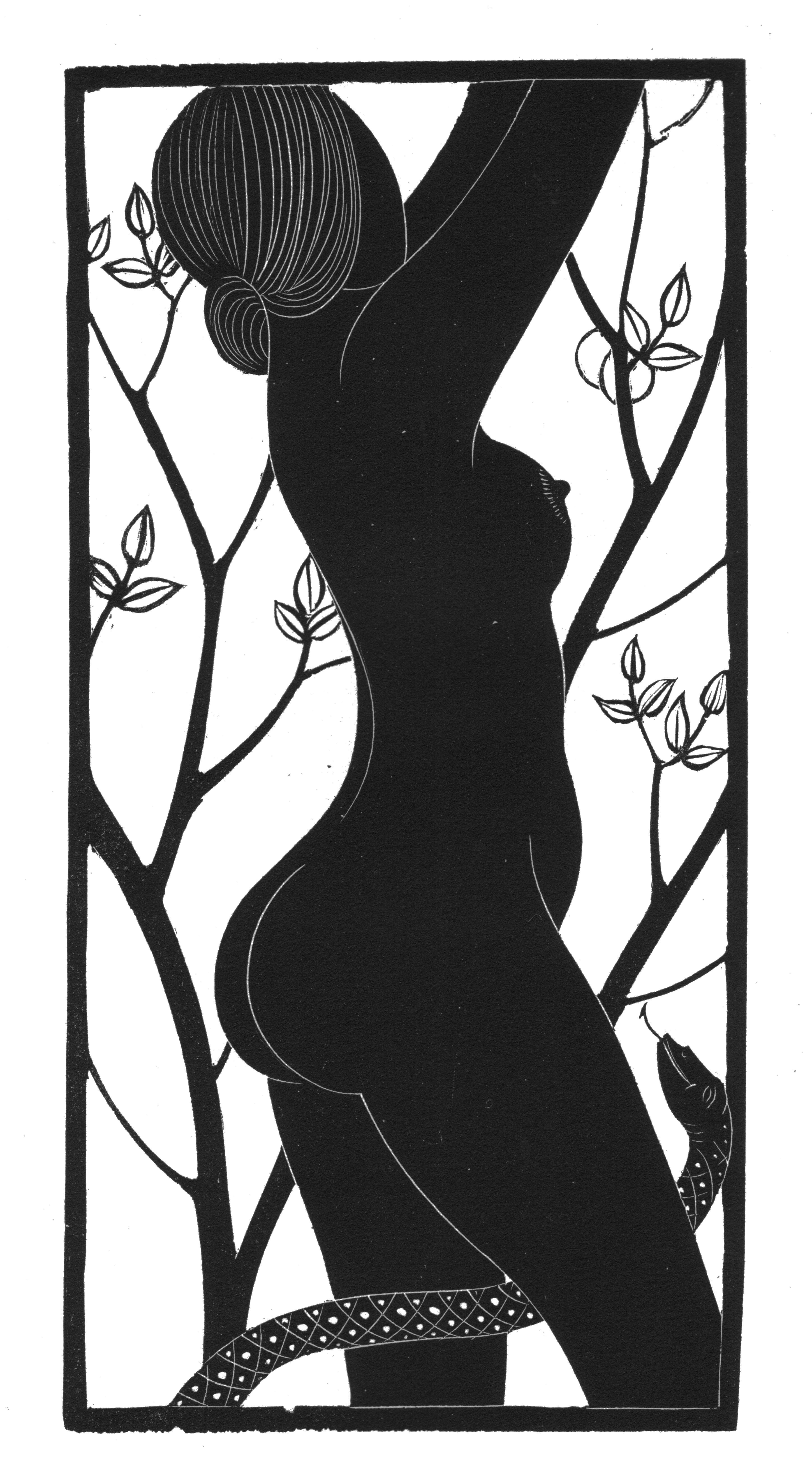 Wood engravng published in "Engravings by Eric Gill: A Selection". Bristol: Douglas Cleverdon, 1929